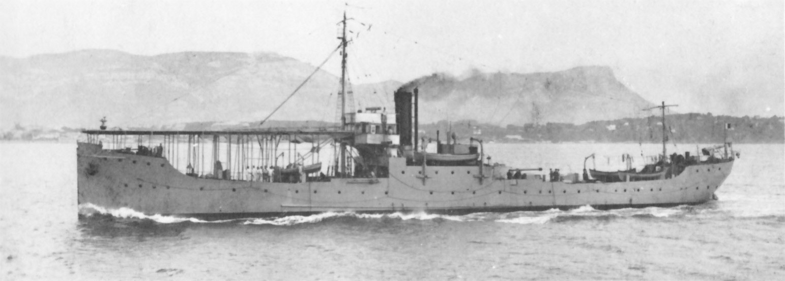 The French aviso Bapaume was fitted with a 20 m hangar deck and used for flying-off tests by Lieutenant de Vaisseau Paul Teste. Description from Francis Dousset: Les Navire de Guerre Francais, page 65.